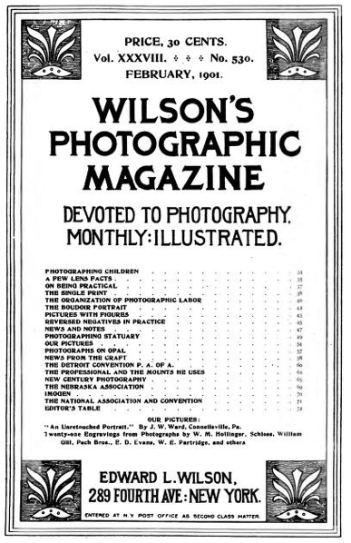 Wilsons' Photographic Magazine cover